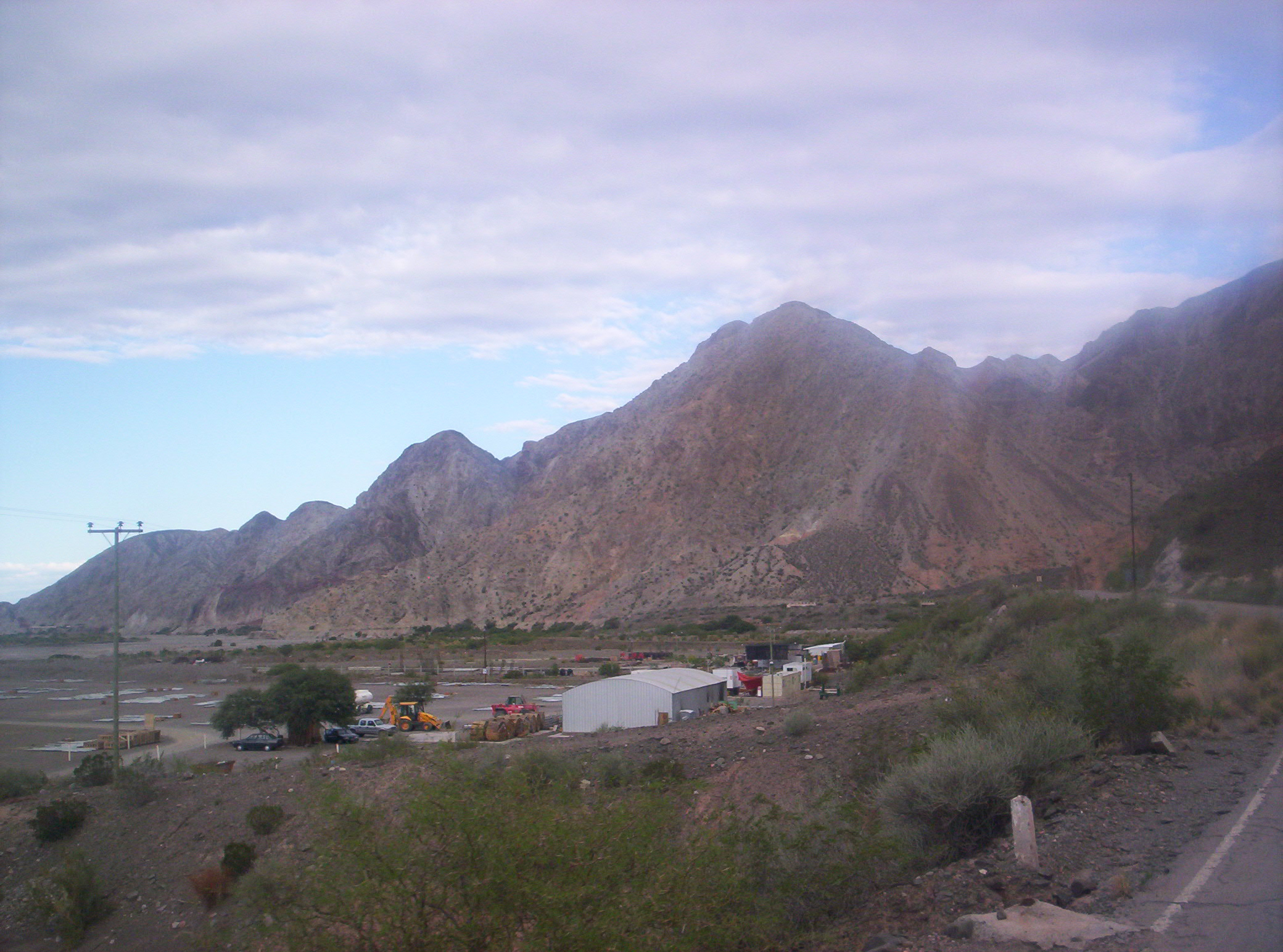 Photograph showing the foothills area in the province of San Juan and the river of the same name, Argentina. It is also possible to display a camp of a construction company, because the site is under construction a hydroelectric dam